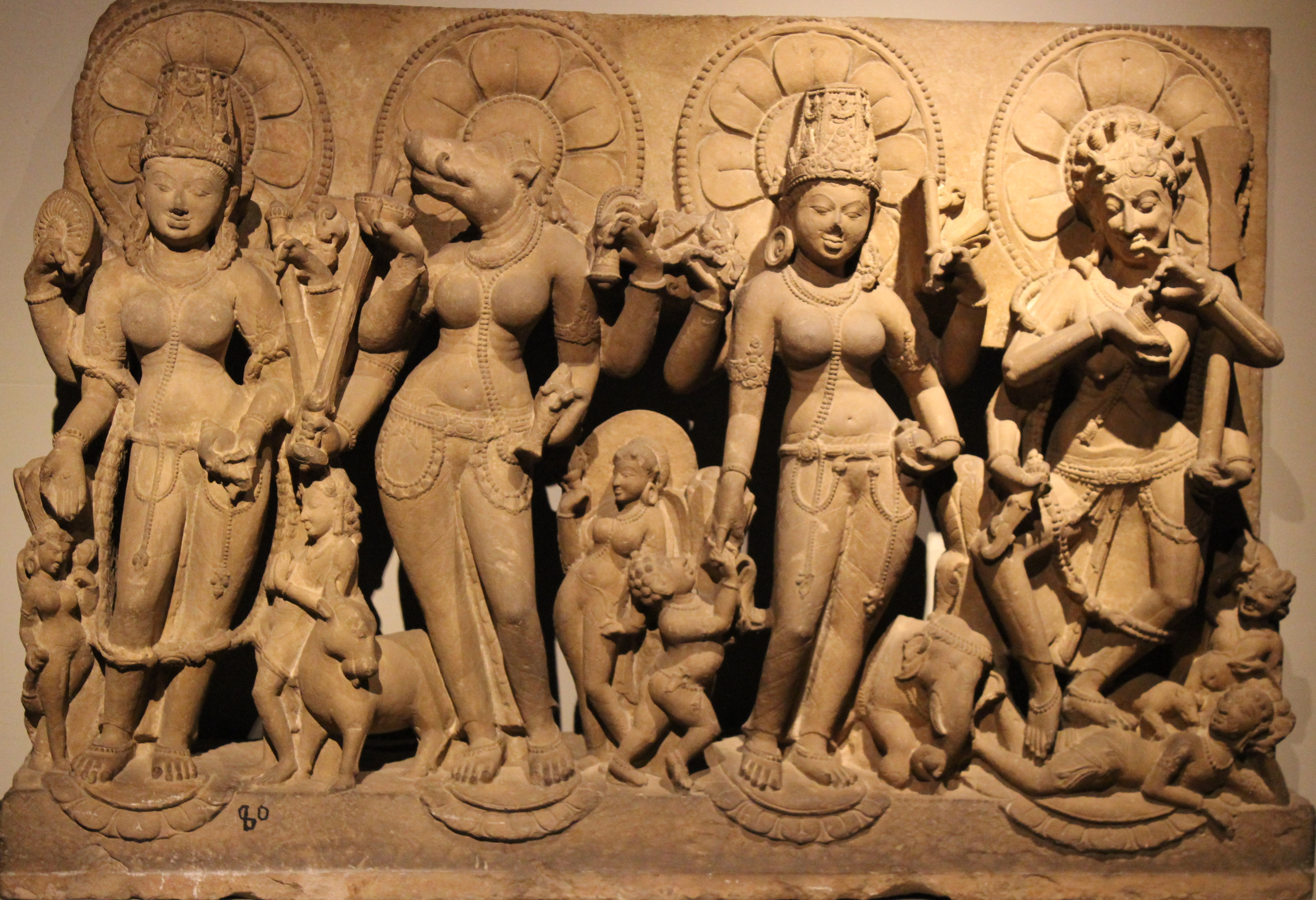 Vaishnavi, Varahi, Indrani and Camunda are the role models for mothers in the hindu religion